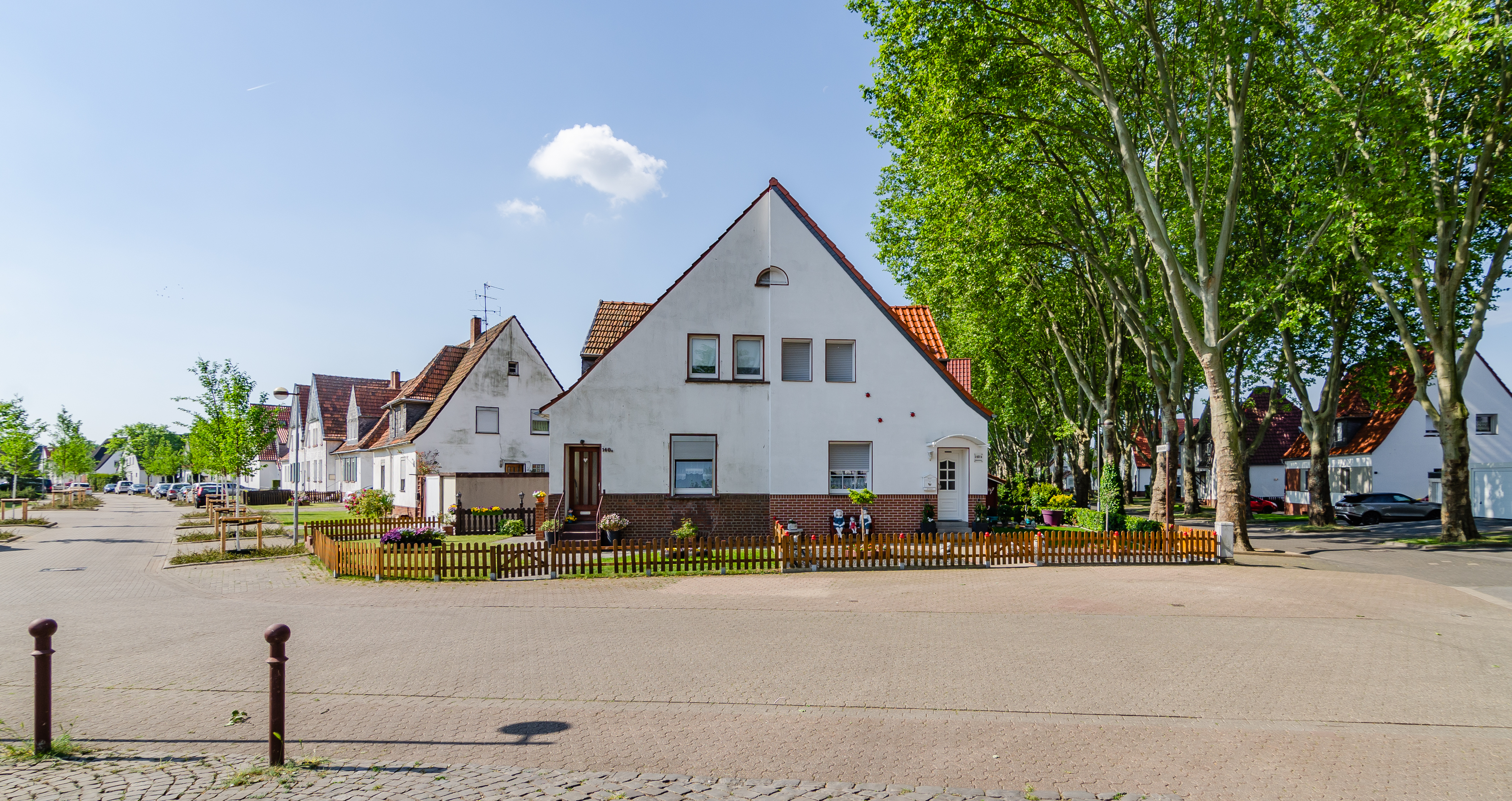 Kamp-Lintfort (North Rhine-Westphalia, Germany) – Friedrich Heinrich Miners' Housing Estate